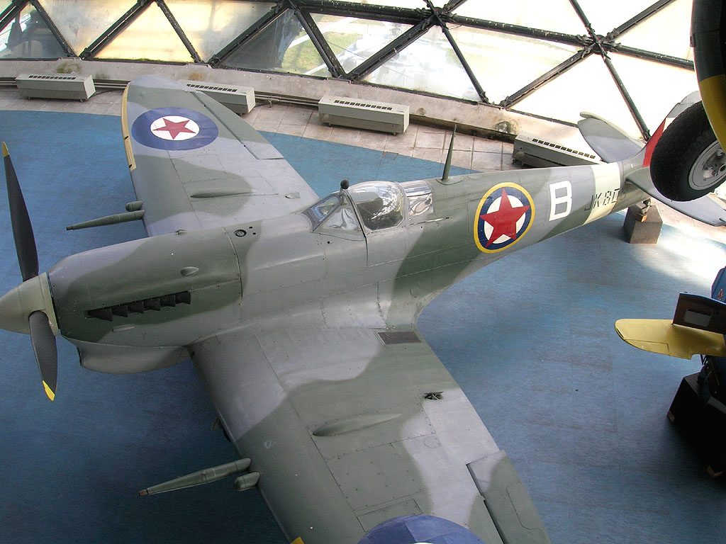 Spitfire Mk VC Trop in Belgrade Aviation Museum.